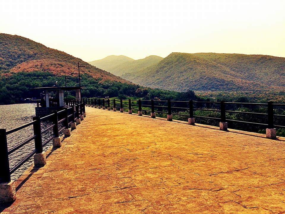 Wellington Dam (Junagadh)